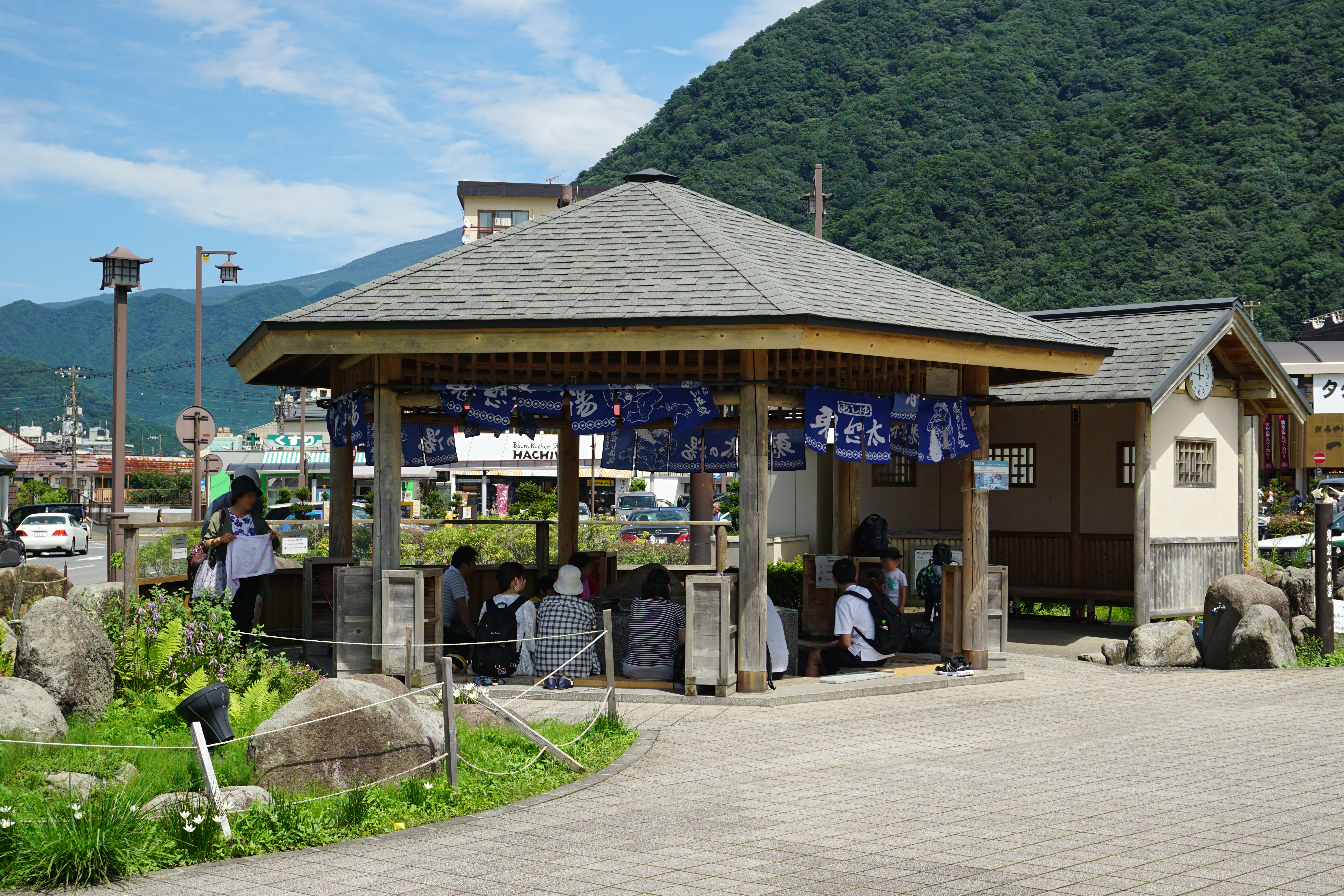 The public ashiyu footbath in front of Kinugawa-Onsen Station in Nikko, Tochigi prefecture, Japan